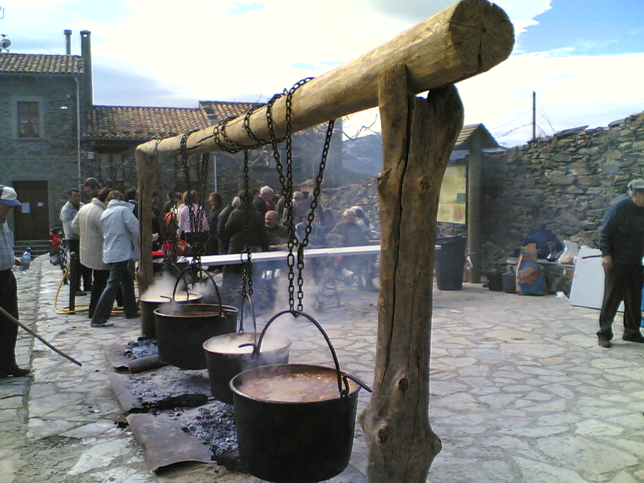 "Farinetes" journey in Pardines (Ripollès) 22/2/2009 13h 44mn - Popular and traditional day.